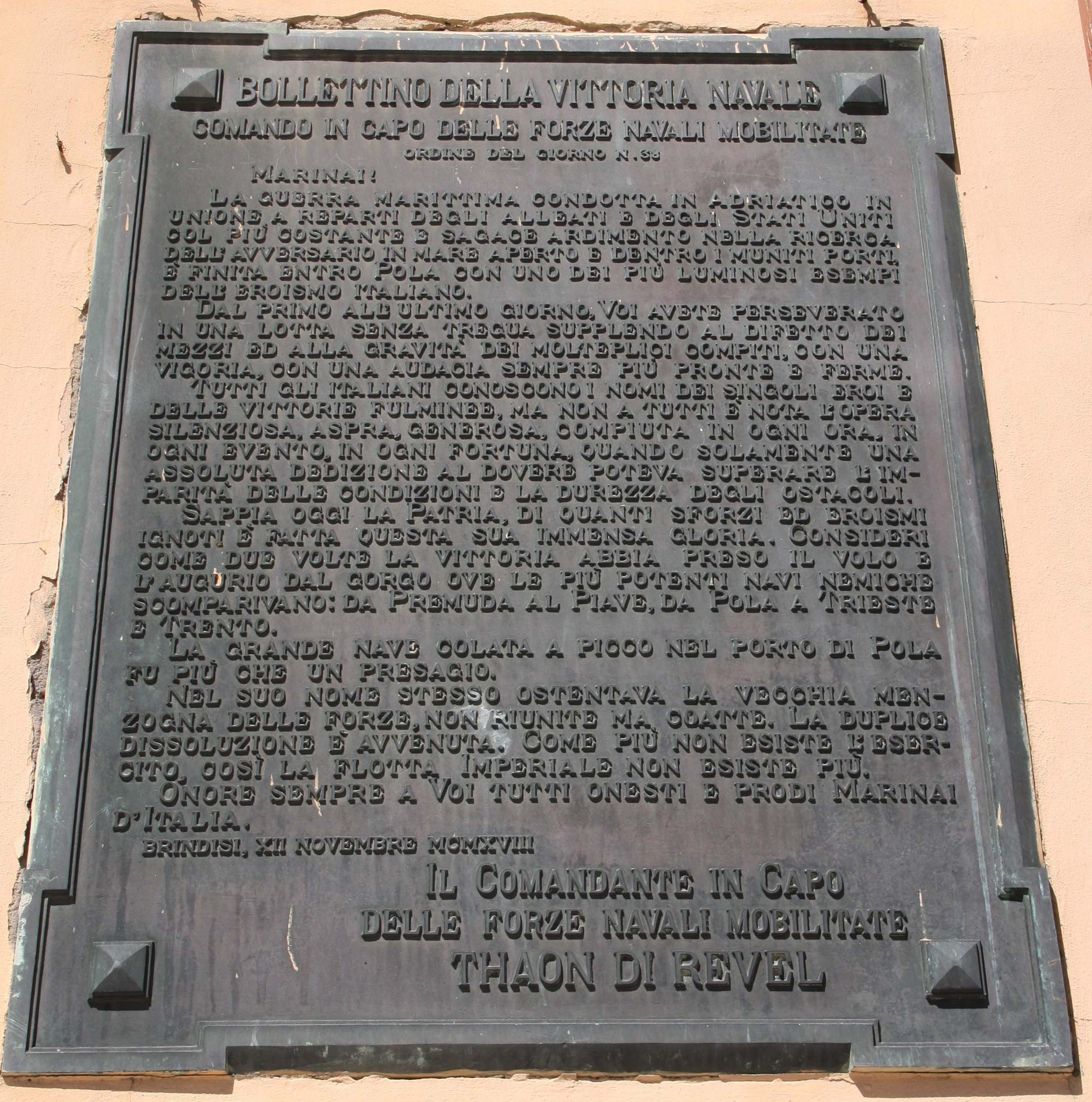 Italy, Livorno, Piazza del Municipio. The right plaque placed on the front of Palazzo Comunale (Livorno) to remember the naval victory in the World War I on November 12, 1918.